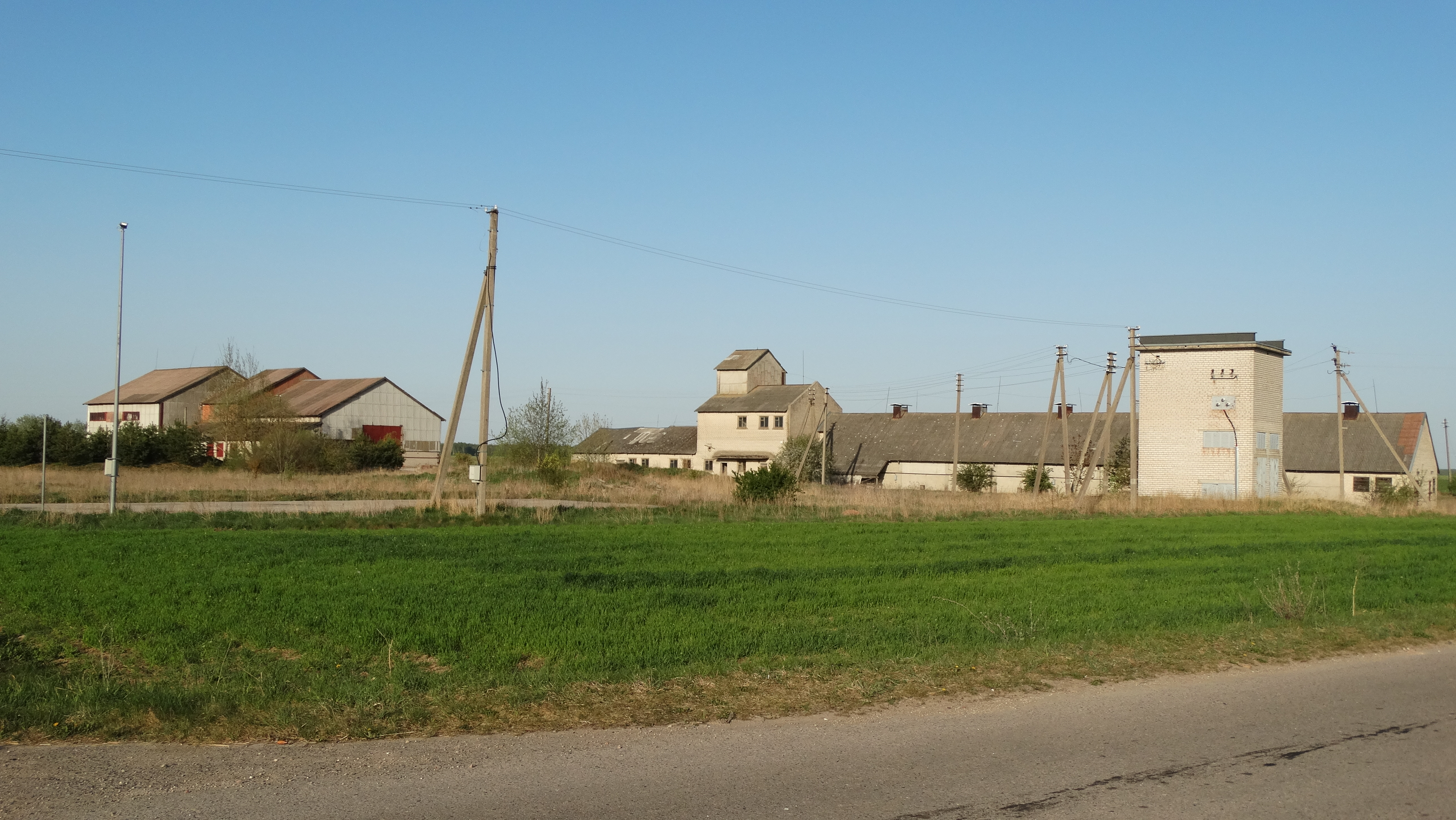 Klovainiai, Pakruojis district, Lithuania